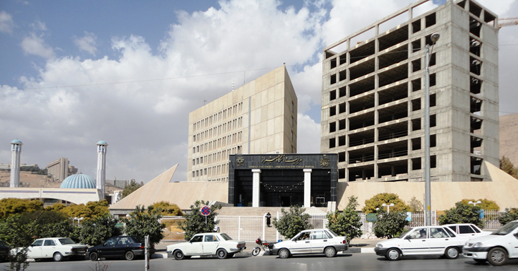 cut version of File:Unishz3.jpg